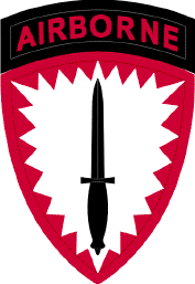 US Army insignia (Special Operations Command Europe)